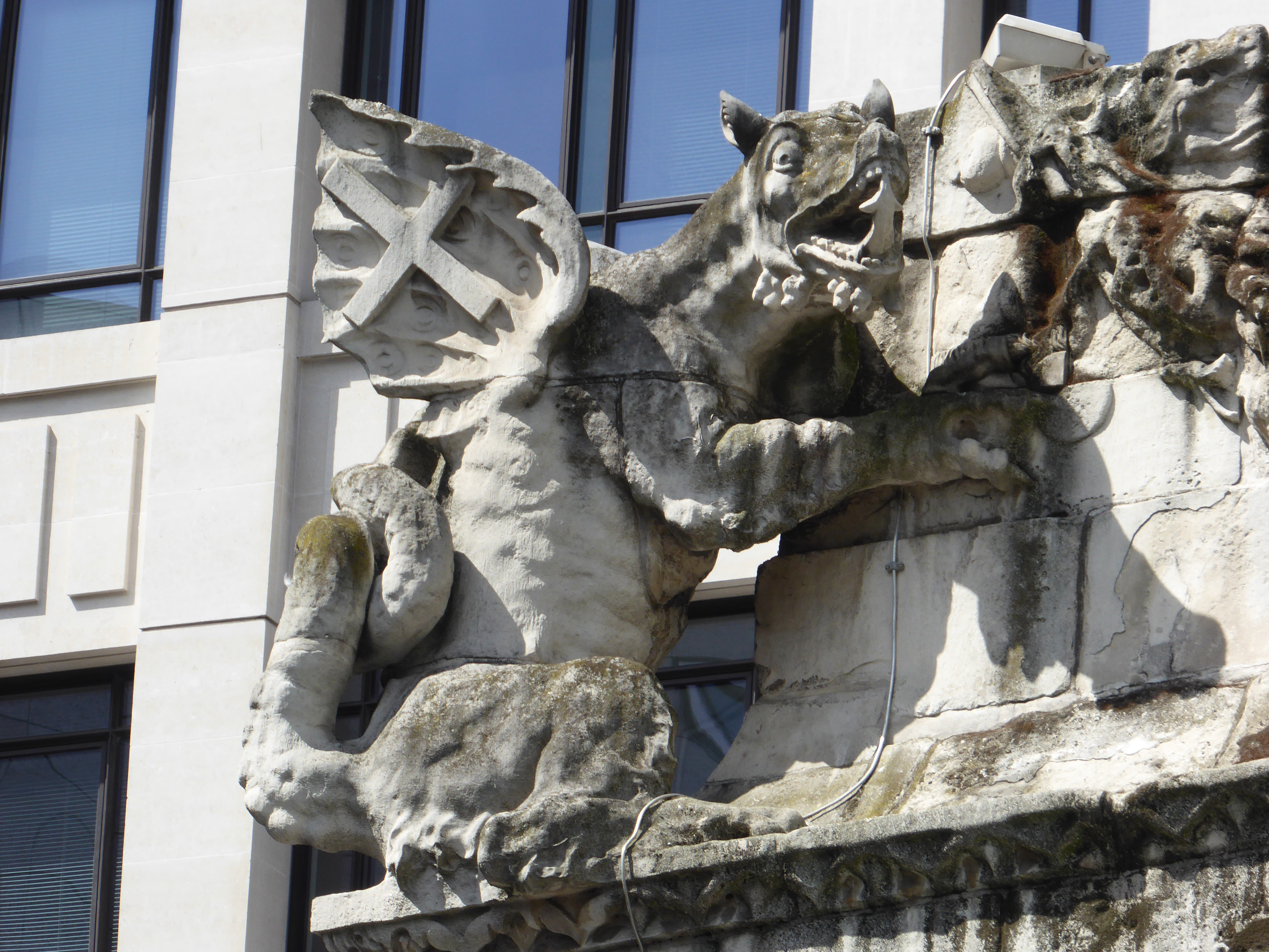 A dragon sculpture on the Monument to the Great Fire of London in the City of London.